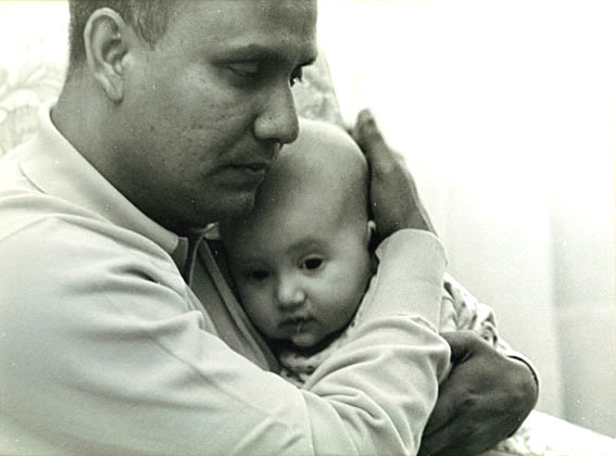 "Before she was even born in 1970 at Norwalk Hospital, Jayanti Tamm was declared the chosen disciple of Sri Chinmoy, an Indian guru living in Queens, N.Y., who proclaimed he was a guru." Photo taken when Tamm was ca. four months old.